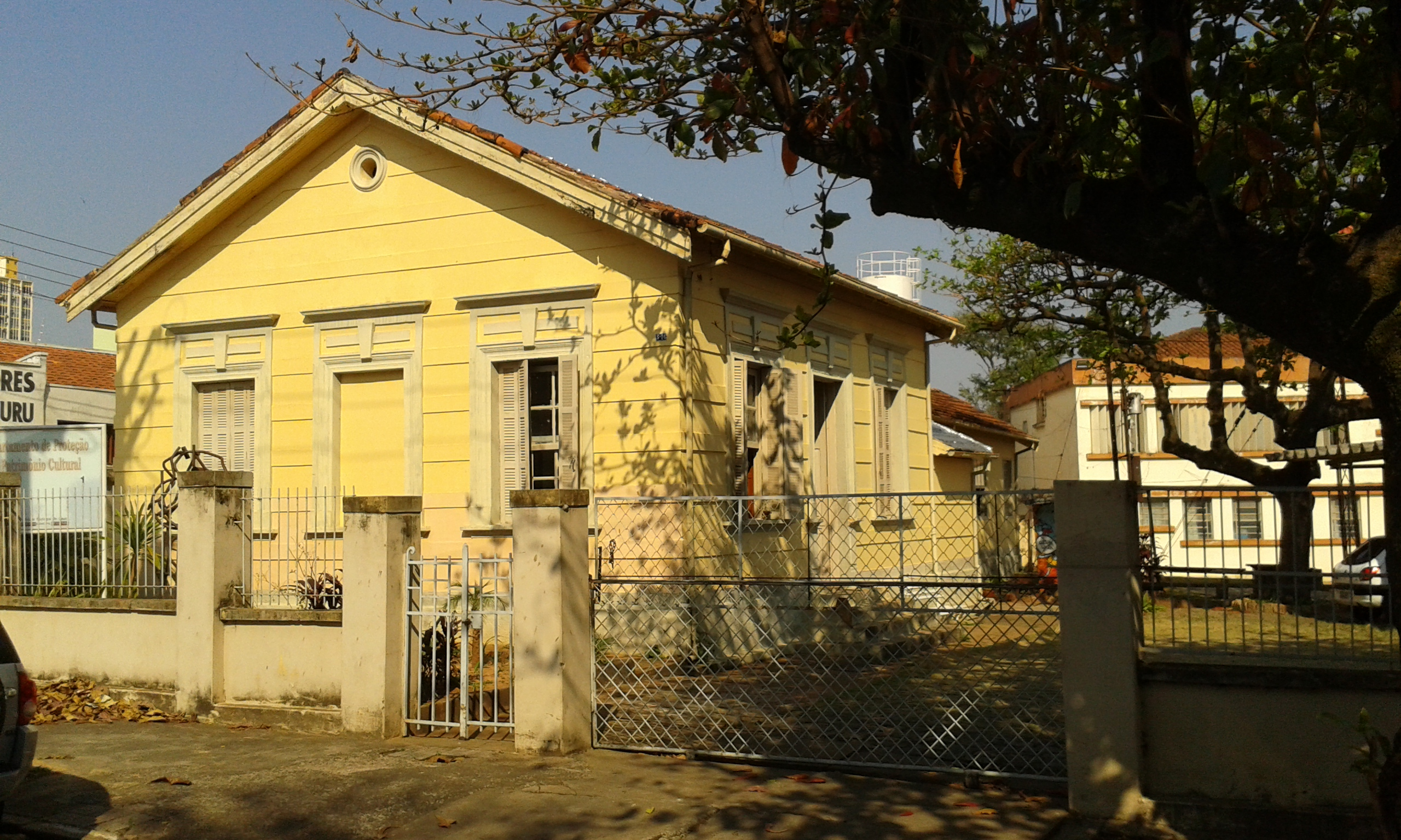 Bauru Historical Museum Building